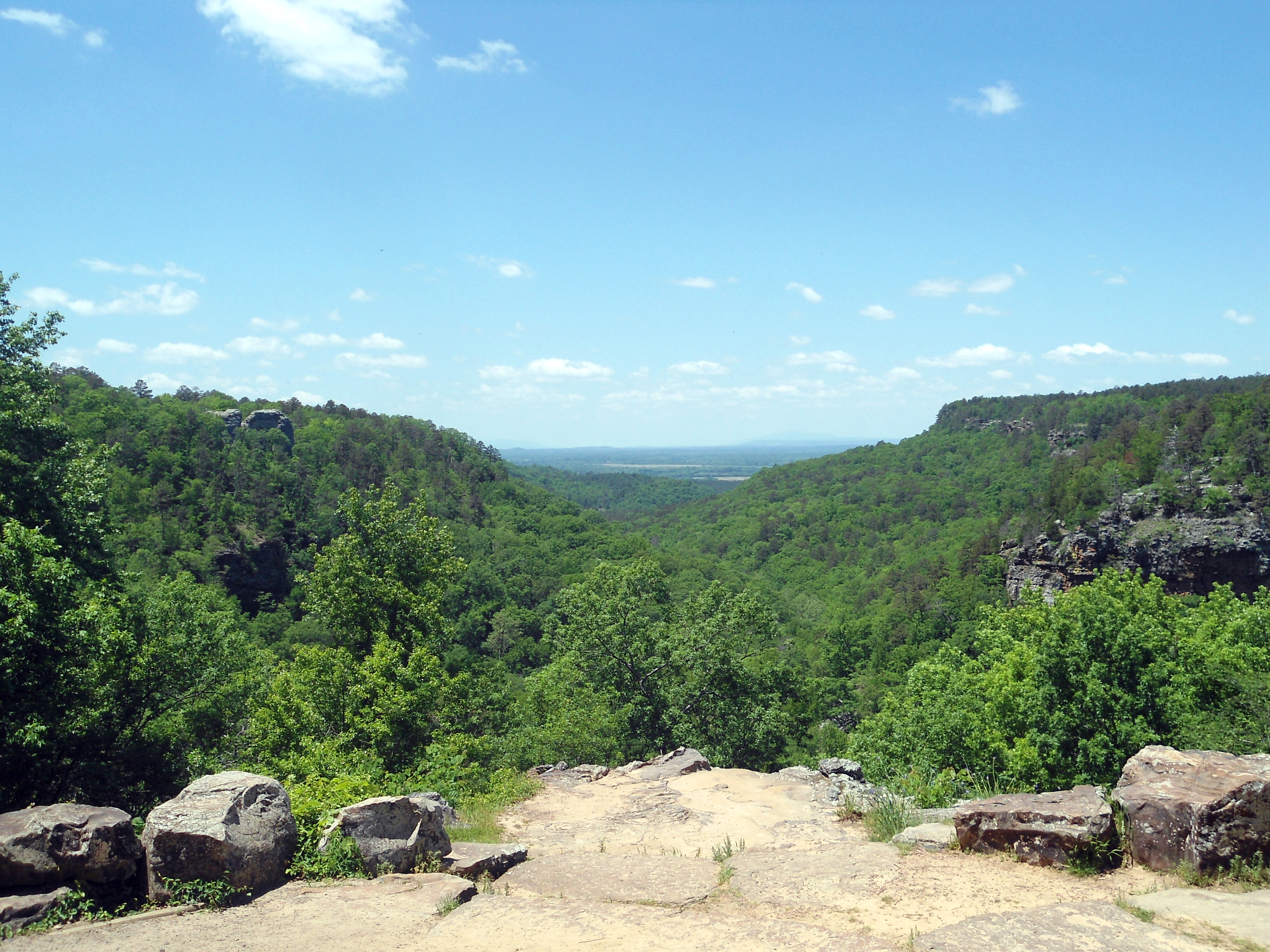 View from Mather Lodge